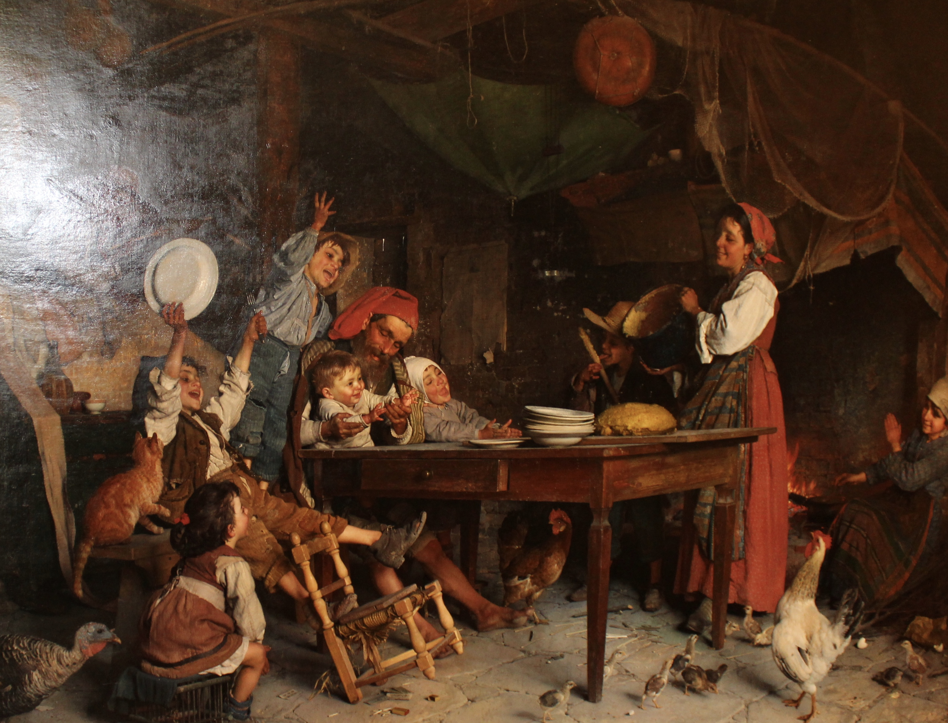 Photo of Hasty Pudding (1883) oil on canvas painting by Gaetano Chierici from the Widener University Alfred O. Deshong Collection. Photo taken March 2019.